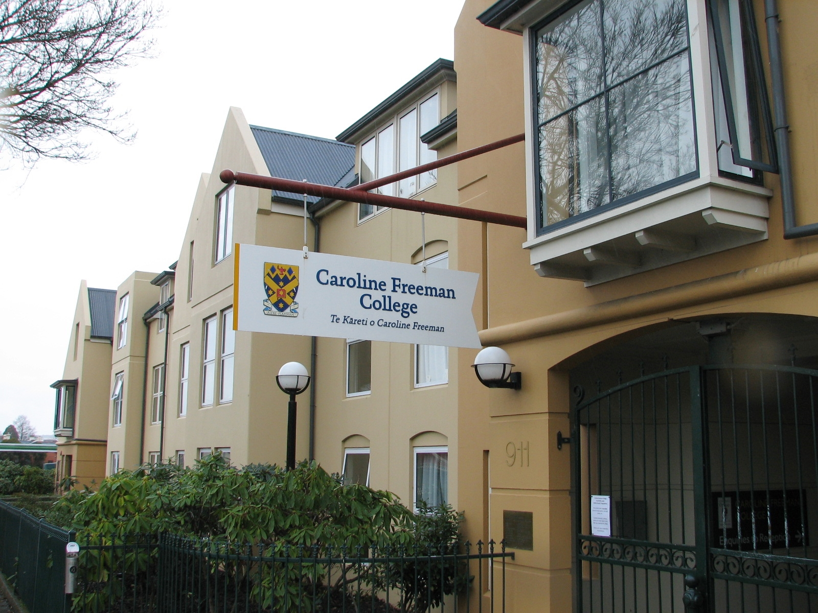 Cumberland Street entrance to Caroline Freeman College